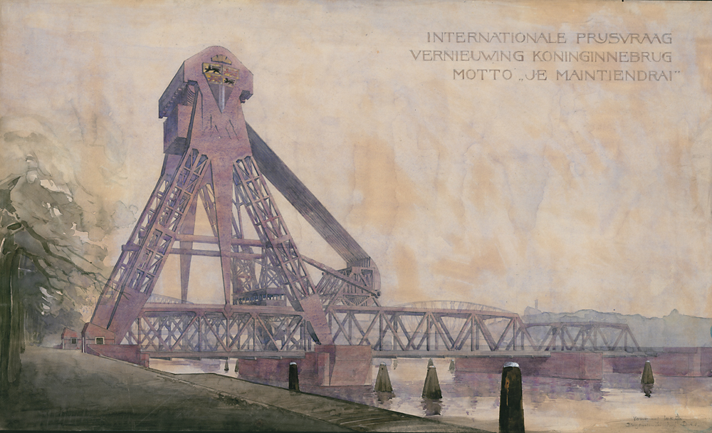 W. Kromhout. Prijsvraagontwerp voor een nieuwe Koninginnebrug, 1925. Collectie NAi, KROM 73 W. Kromhout. Competition design for a new bridge, 1925. NAI Collection, KROM 73